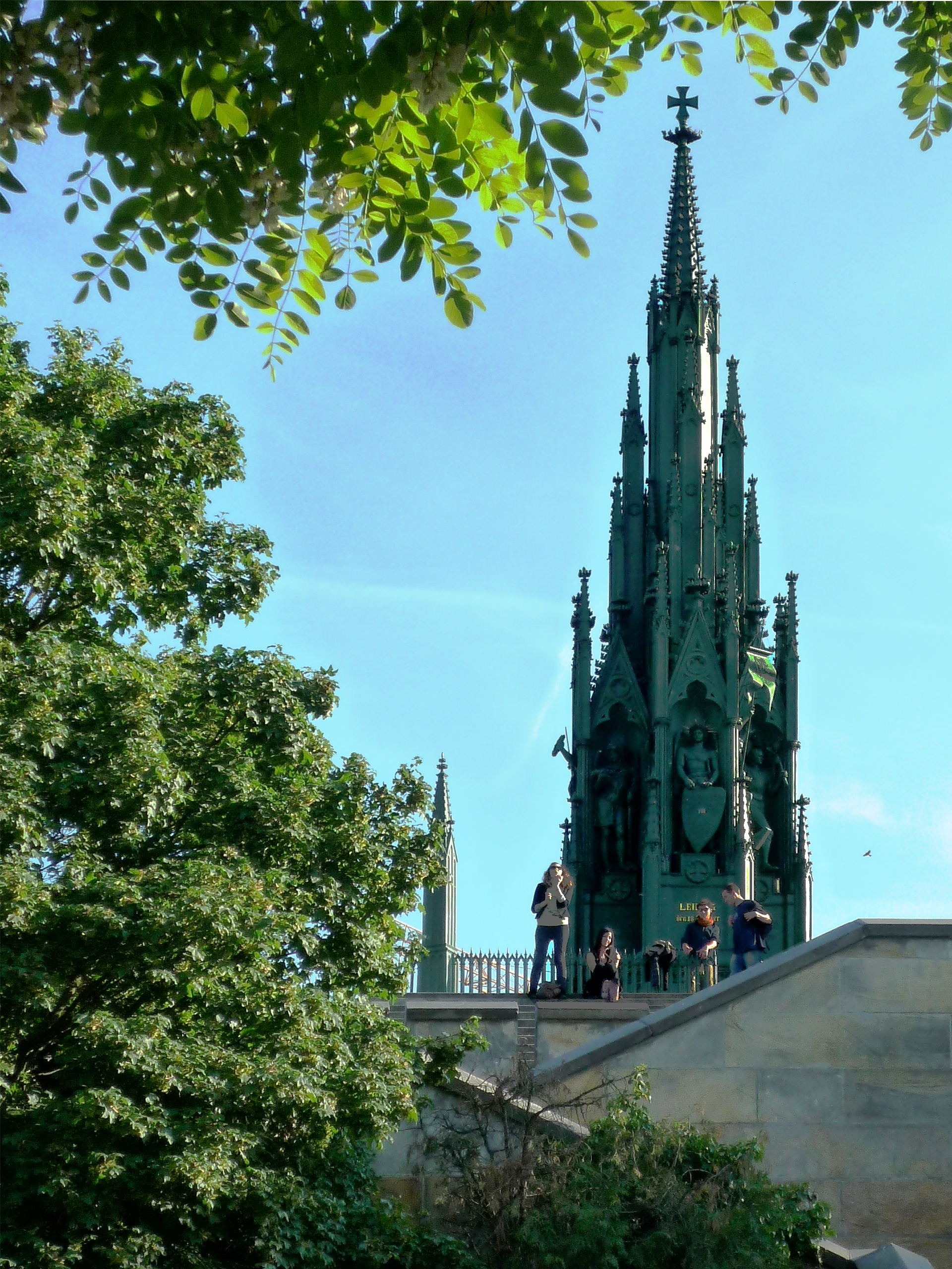 Viktoriapark in Berlin-Kreuzberg. National memorial for the war of liberation against Napoleon Bonaparte, ceremonially opened in 1821. Partial view